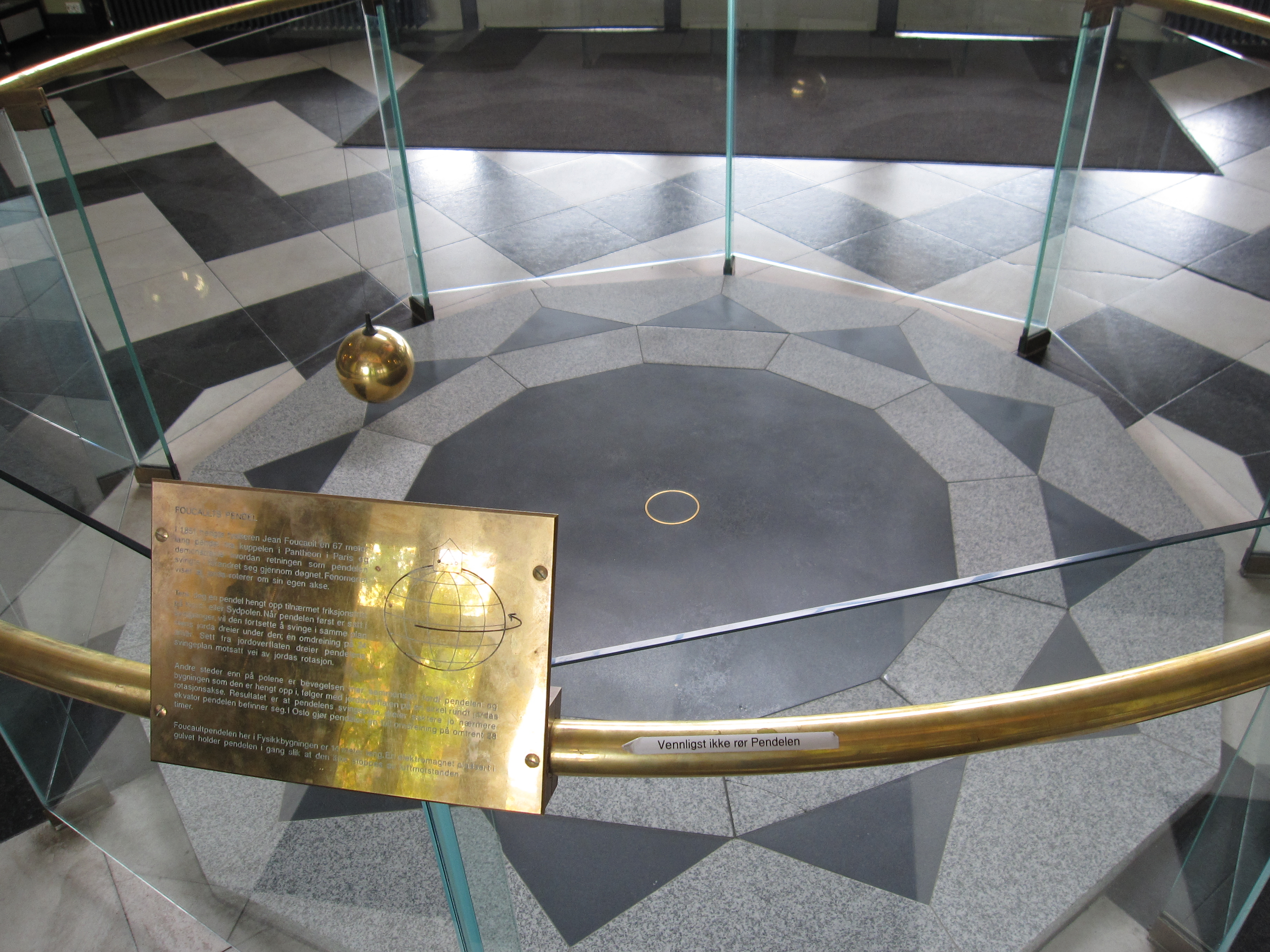 Foucault pendulum in University of Oslo Physics building